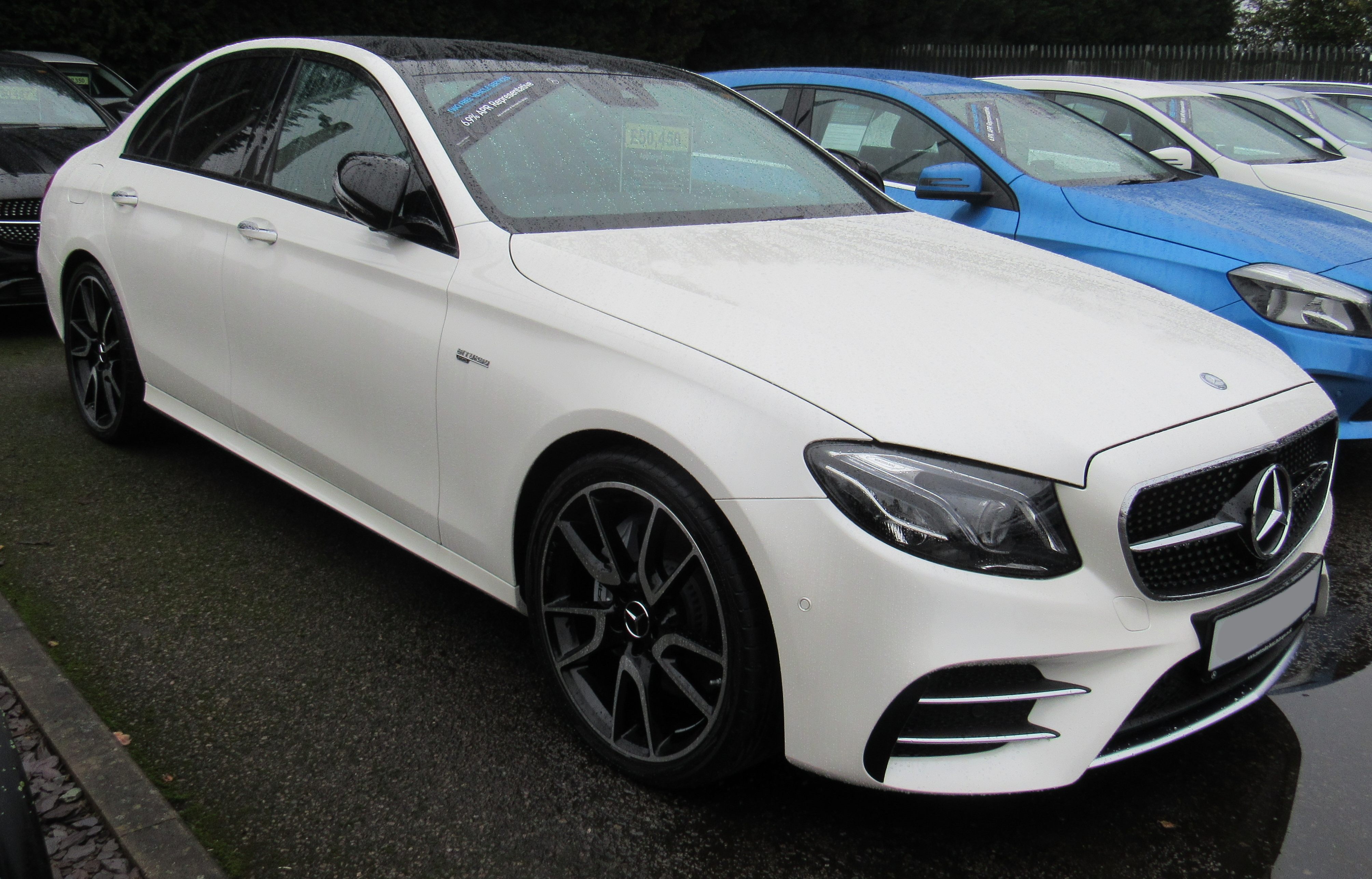 2017 Mercedes-AMG E43 Premium+ 4MATIC 3.0 Front Taken in Stratford-upon-Avon